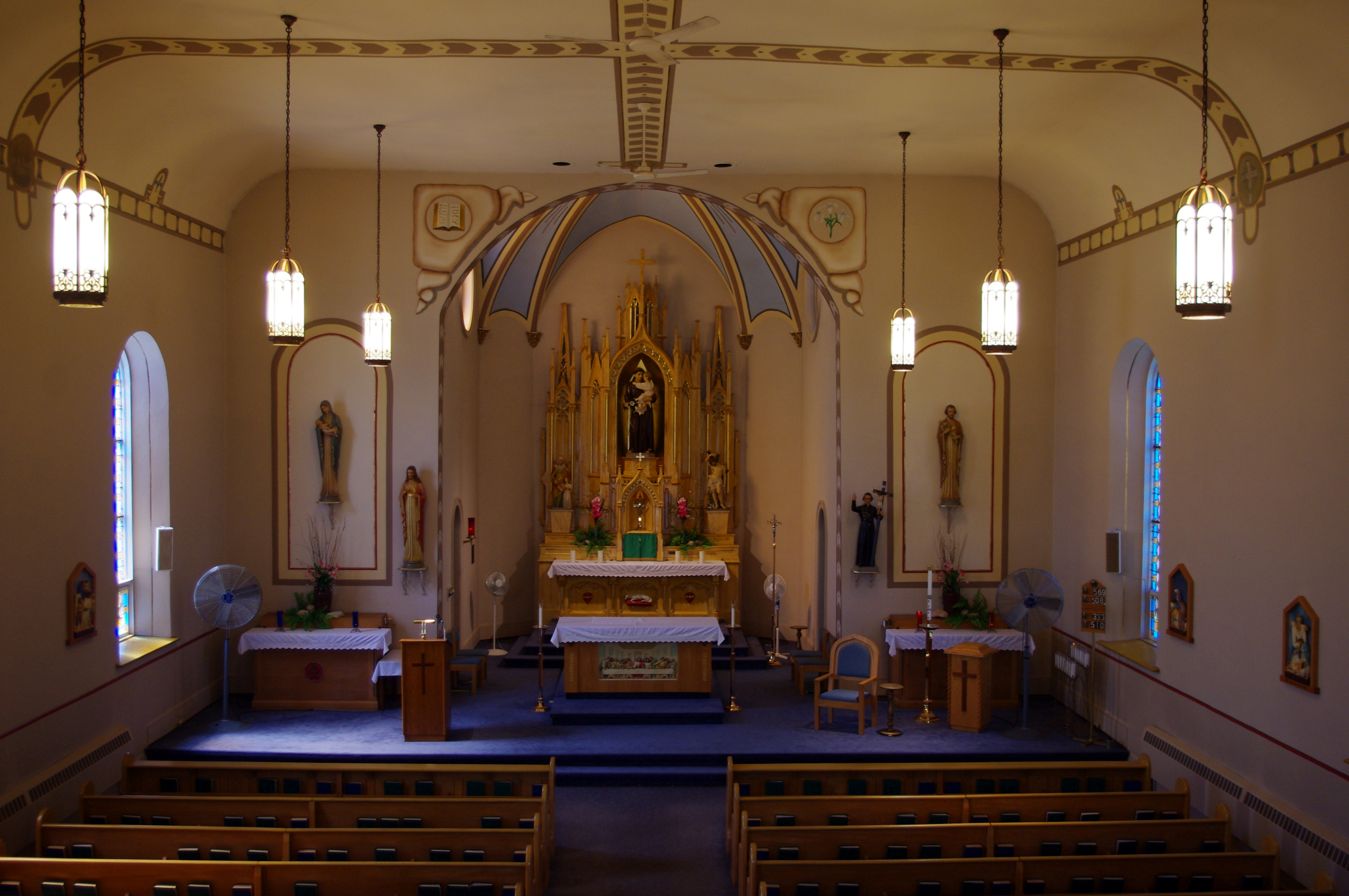 Saint Anthony Church (Padua, Ohio) - interior, view from the organ loft